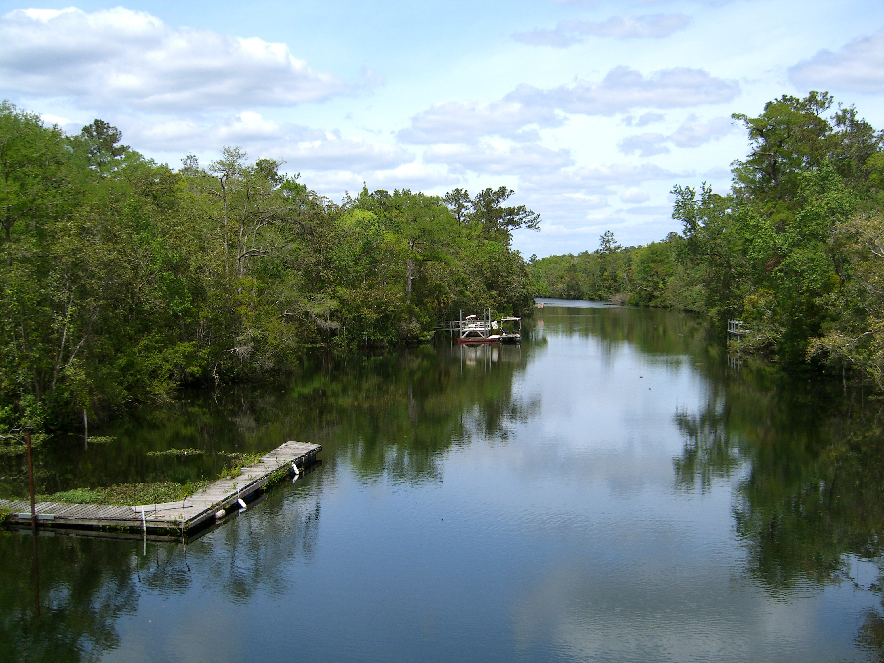 St. Marks River, looking northward from the George NeSmith Bridge at Newport, Florida, USA.